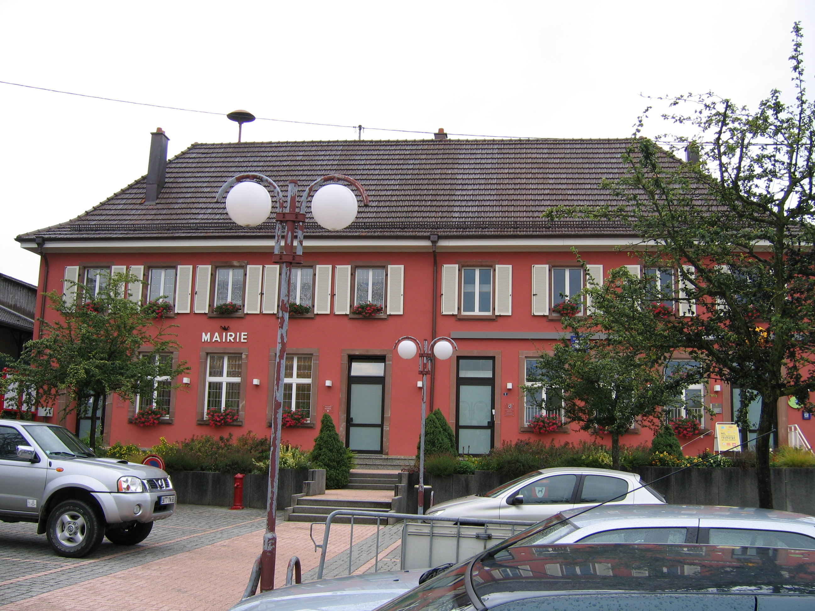 Waldighofen (France Haut-Rhin) - City Hall